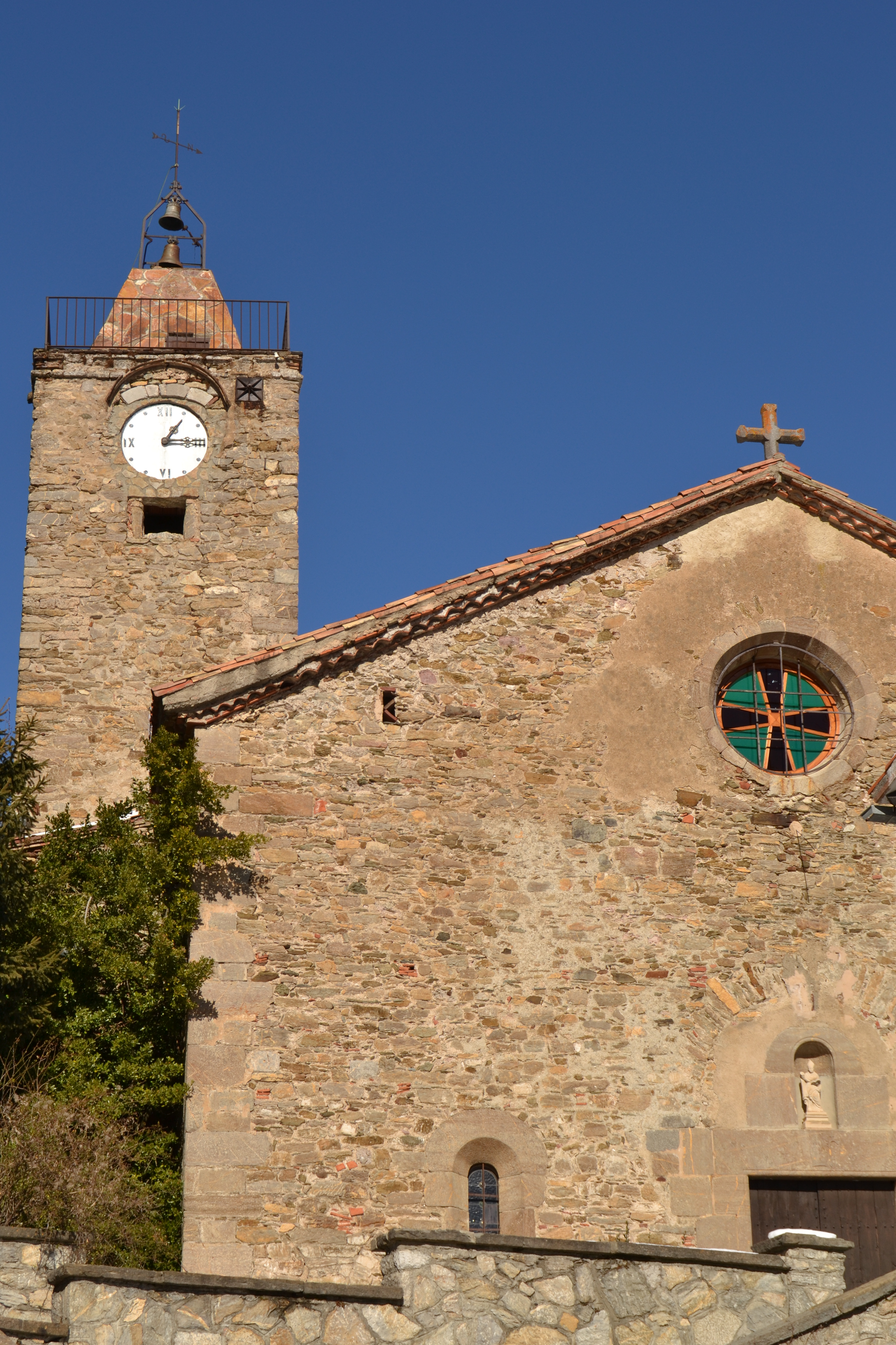 The church of Campelles in Catalonia, Spain